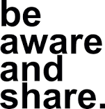 logo of the Swiss relief organization Be aware and share founded in 2015 in the context of the European migrant crisis.